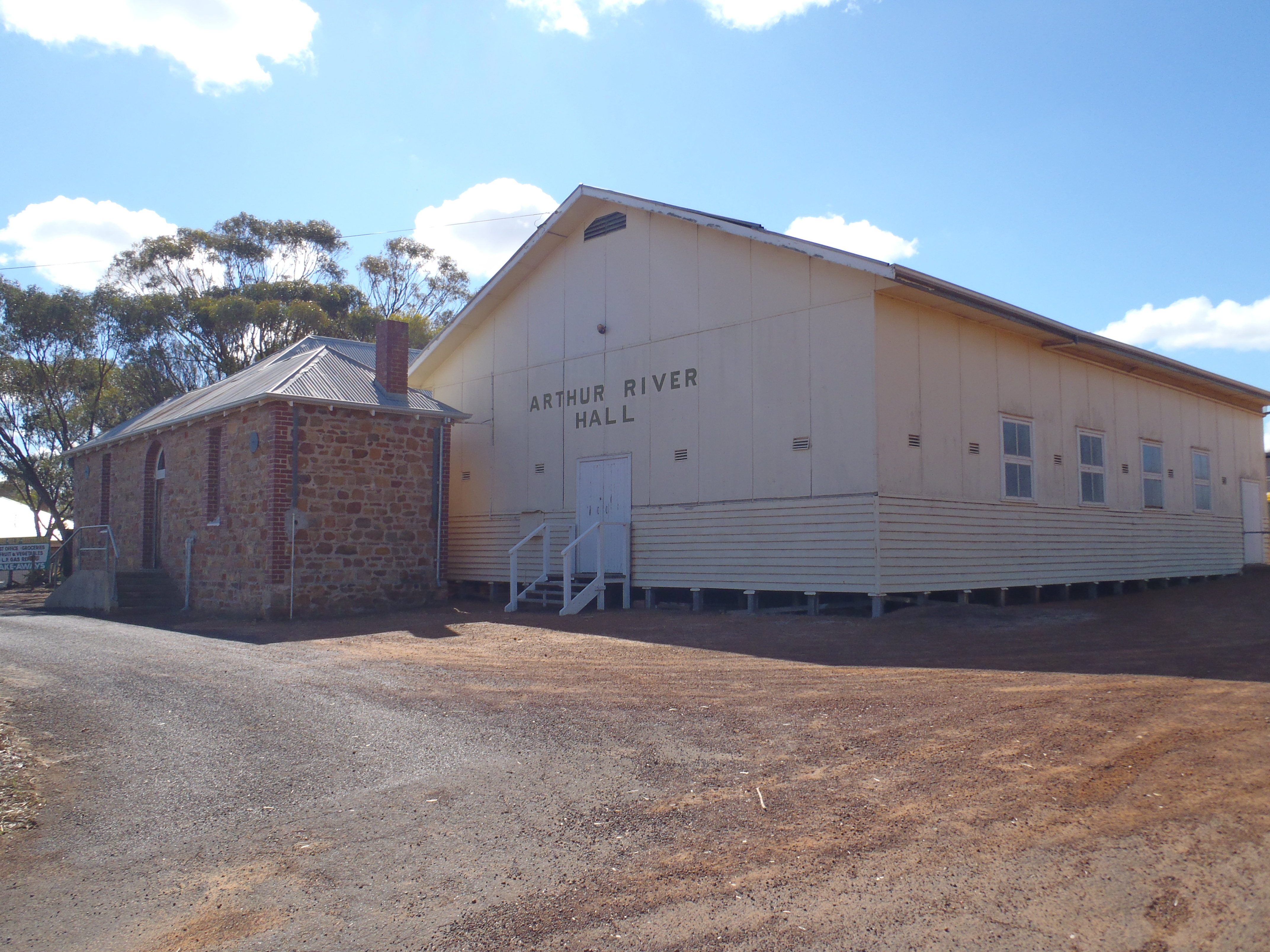 Hall at Township of Arthur River